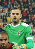 SHAKHTAR DONETSK VS. SPORTING BRAGA 2 - 0